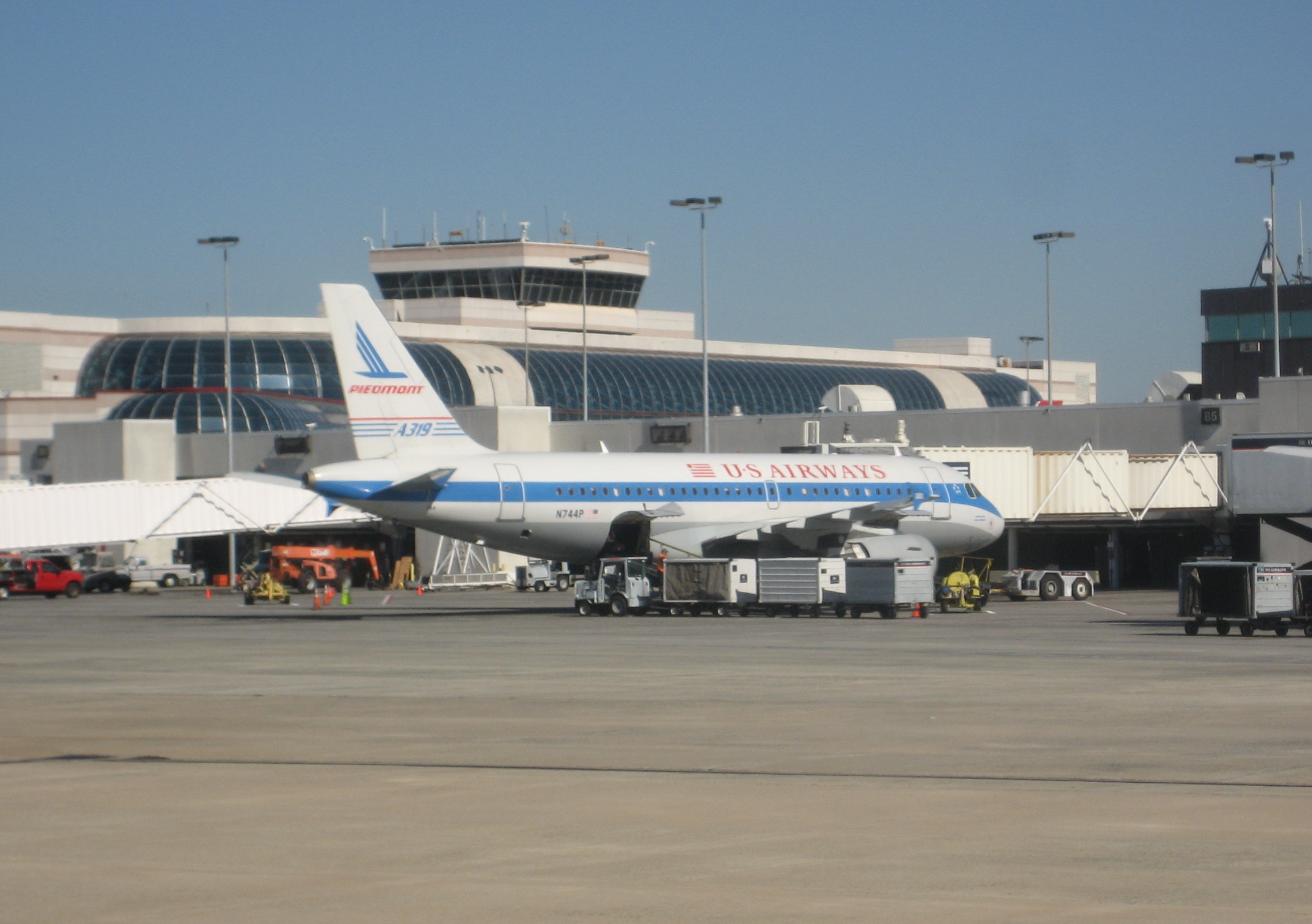 US Airways' Piedmont A319 retrojet (N744P) at Charlotte-Douglas International Airport.